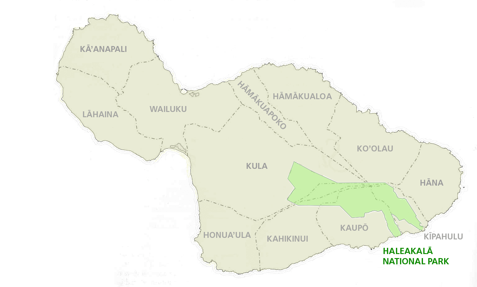 map of Maui Island, Hawaii, showing traditional moku (district) division, with Haleakala National Park superimposed